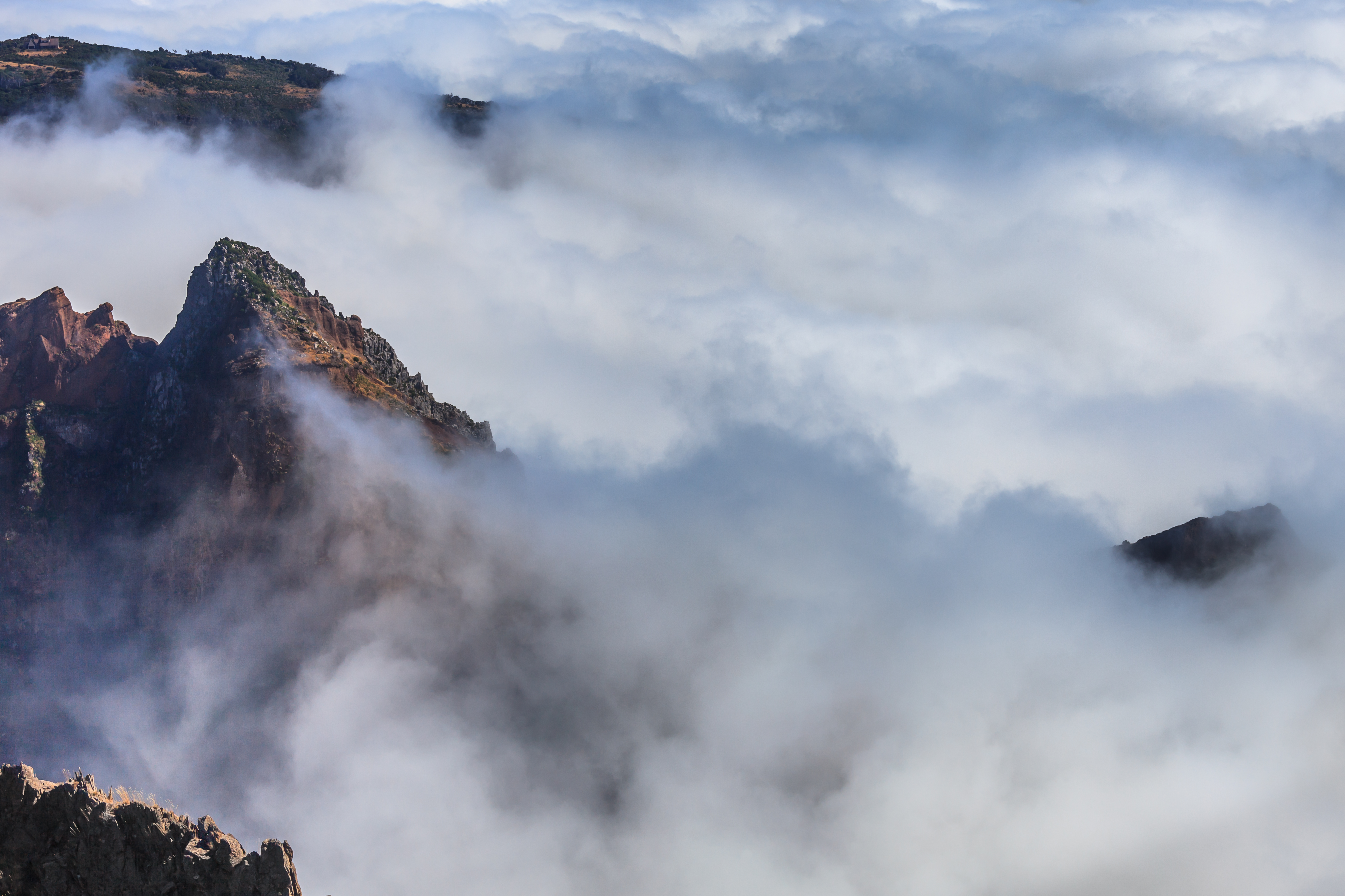 Clouds from Pico do Areeiro, Madeira, Portugal.